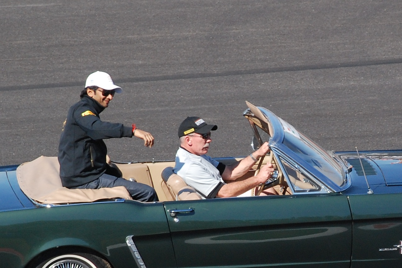 Narain Karthikeyan, United States Grand Prix, Austin 2012